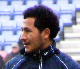 Portrait of Rachid Bouaouzan. Taken during a warmup for Wigan v Blackburn at the DW Stadium, 26th December 2009.